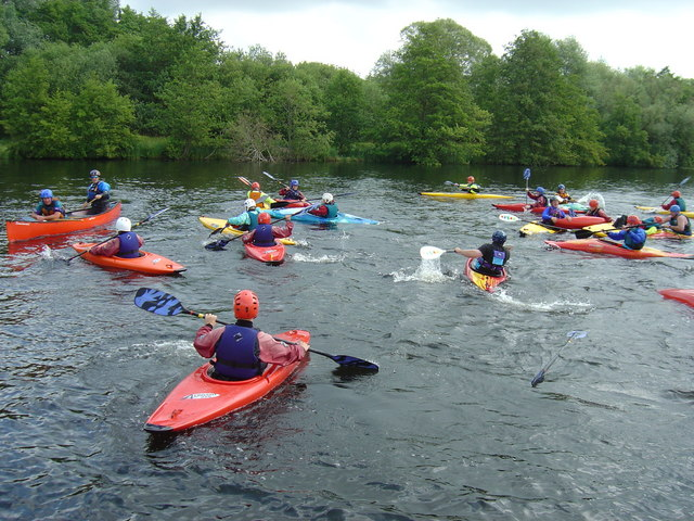 Watermanship Training at Buckenham Tofts Lake Instructors and cadets trying to tip each other out of their kayaks at the end of a long training session at the Stanford Training Area.